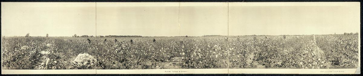 Picking cotton in Georgia. Taking the Long View: Panoramic Photographs, 1851-1991 Picking cotton in Georgia. CREATED/PUBLISHED c1917 NOTES Copyright deposit; F.E. Lee Co.; October 31, 1917. Copyright claimant's address: Atlanta, Ga. SUBJECTS Cotton plantations. Harvesting. United States--Georgia. Gelatin silver prints. Panoramic photographs. RELATED NAMES F.E. Lee Co., copyright claimant. MEDIUM 1 photographic print : gelatin silver ; 8.5 x 48 in. CALL NUMBER PAN US GEOG - Georgia, no. 10 REPRODUCTION NUMBER LC-USZ62-132379 DLC (b&w film copy neg.) PART OF Panoramic photographs (Library of Congress) REPOSITORY Library of Congress Prints and Photographs Division Washington, D.C. 20540 USA DIGITAL ID (intermediary roll film) pan 6a03566 (b&w film copy neg.) cph 3c32379